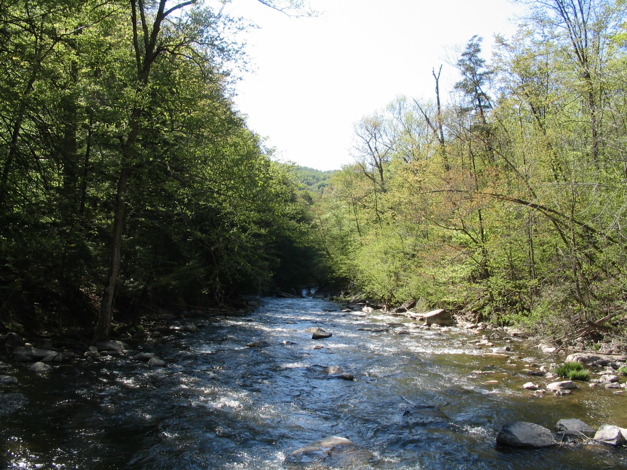 Picture I took upon visiting Chittenango Falls in New York State. The image is the creek facing opposite of the water falls.